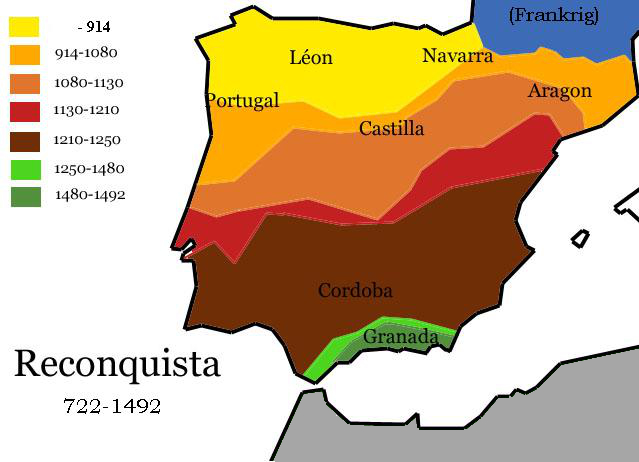 Map of development of the Reconquista on the Iberian Peninsula from year 914 until 1492